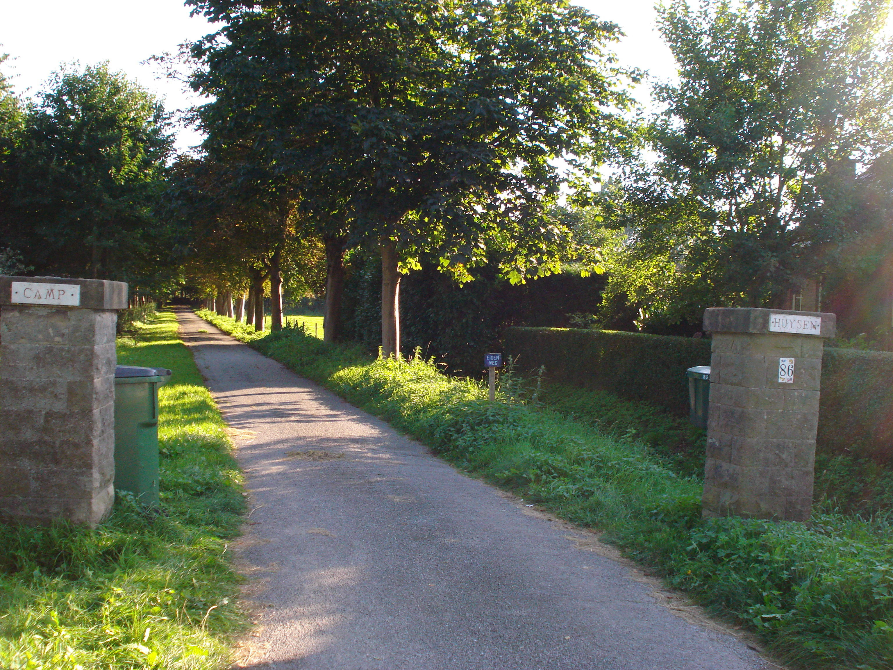 Oud-Zevenaar (Gld-NL) access road to Havezate Camphuysen (Castle)